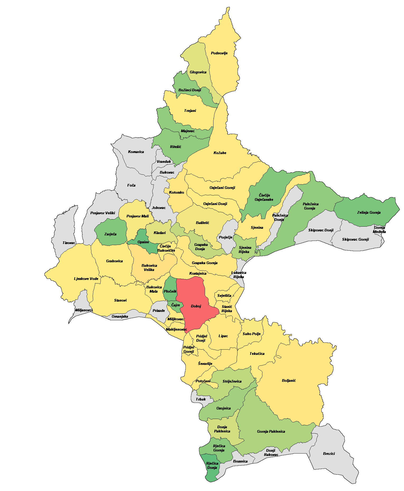 Doboj